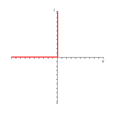 Author: Amr Bekhit